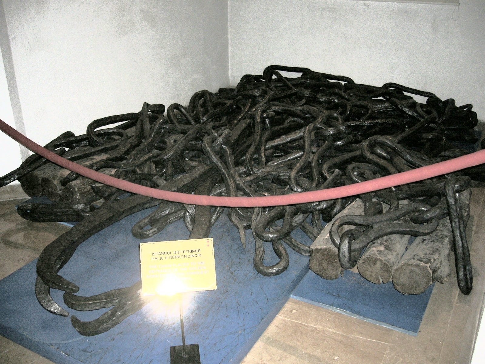 The chain, which the Byzantines stretched across the mouth of the Golden Horn to keep out the navy of Mehmed II in 1453 during the siege of Constantinople. On display in the Istanbul Military Museum (Turkish Askeri Müze).